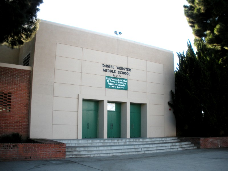 Daniel Webster Middle School, LAUSD, West Los Angeles, California